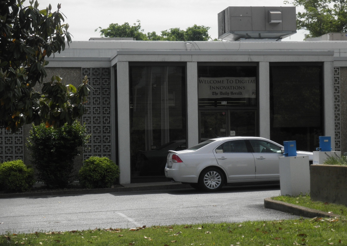 Offices of The Daily Herald newspaper in Columbia, Tennessee OLYMPUS DIGITAL CAMERA